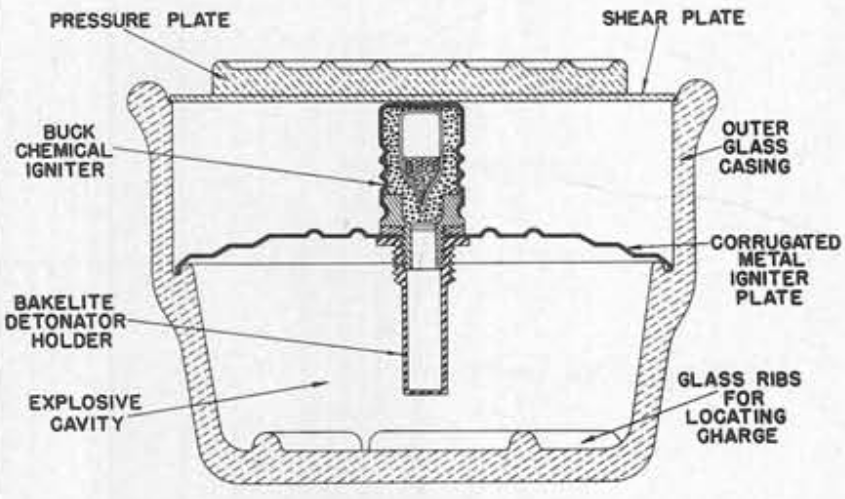 Diagram of a World War 2, German Glasmine 43, anti-personnel mine